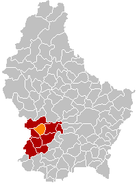 Own edit of Kanton CapellenLocatie.png